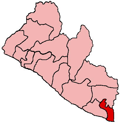 Map of Liberia showing Maryland County; created with the GIMP. Made by User:Acntx.